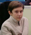 Sergey Karjakin